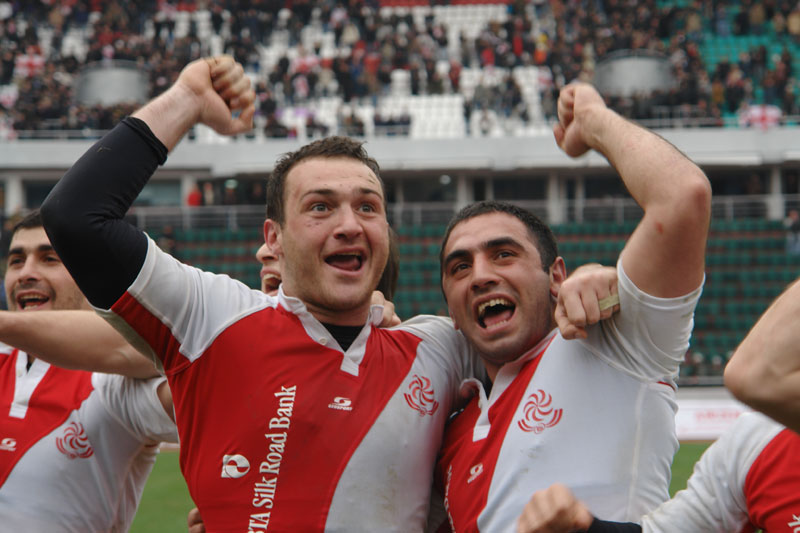 Georgian rugby union players